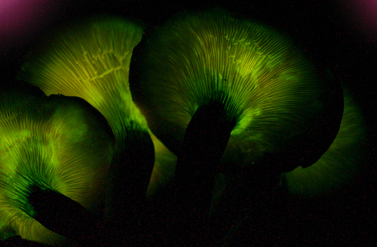 Omphalotus olearius ((DC.) Singer) Location: Randolph Co. West Virgina, USA